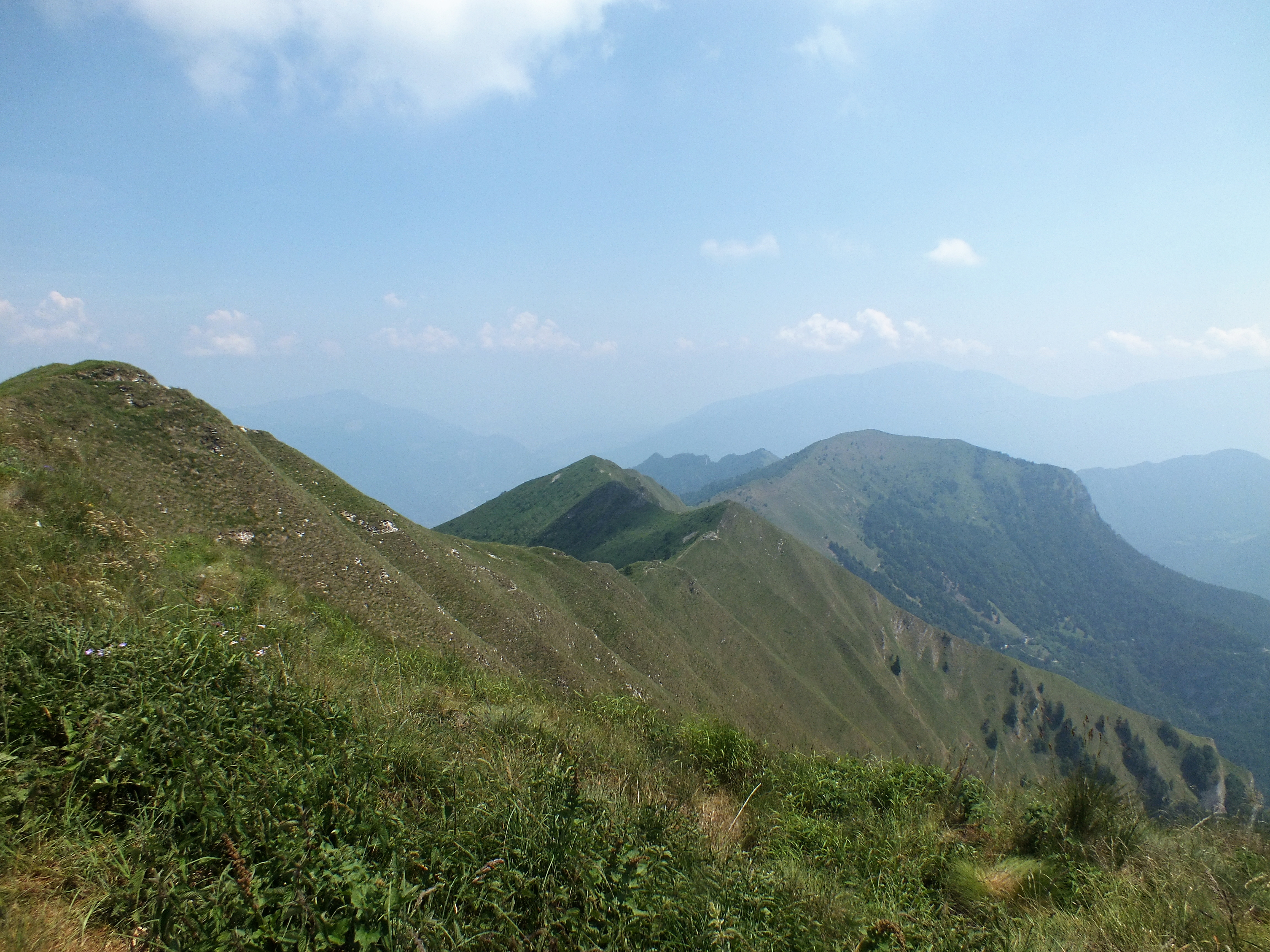 The ridge from Cima Parì over Cima Sciapa at Cima d'Oro